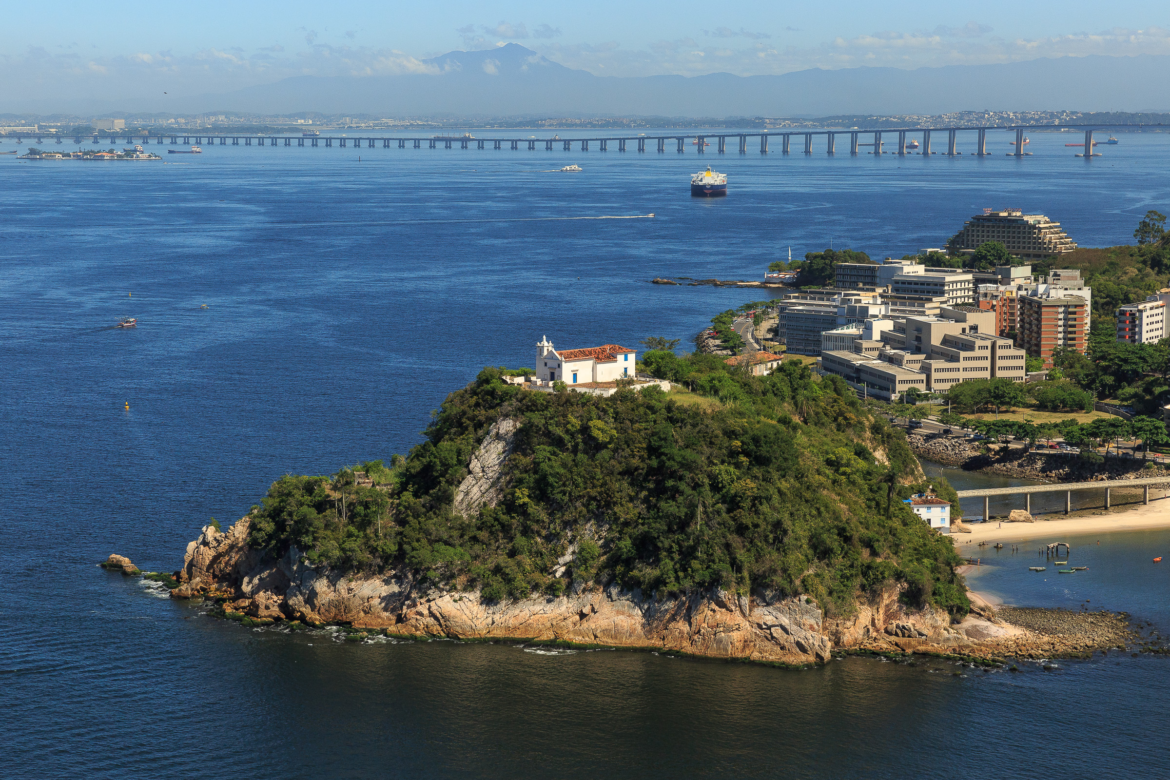 Vista aérea da Ilha da Boa Viagem na cidade de Niterói